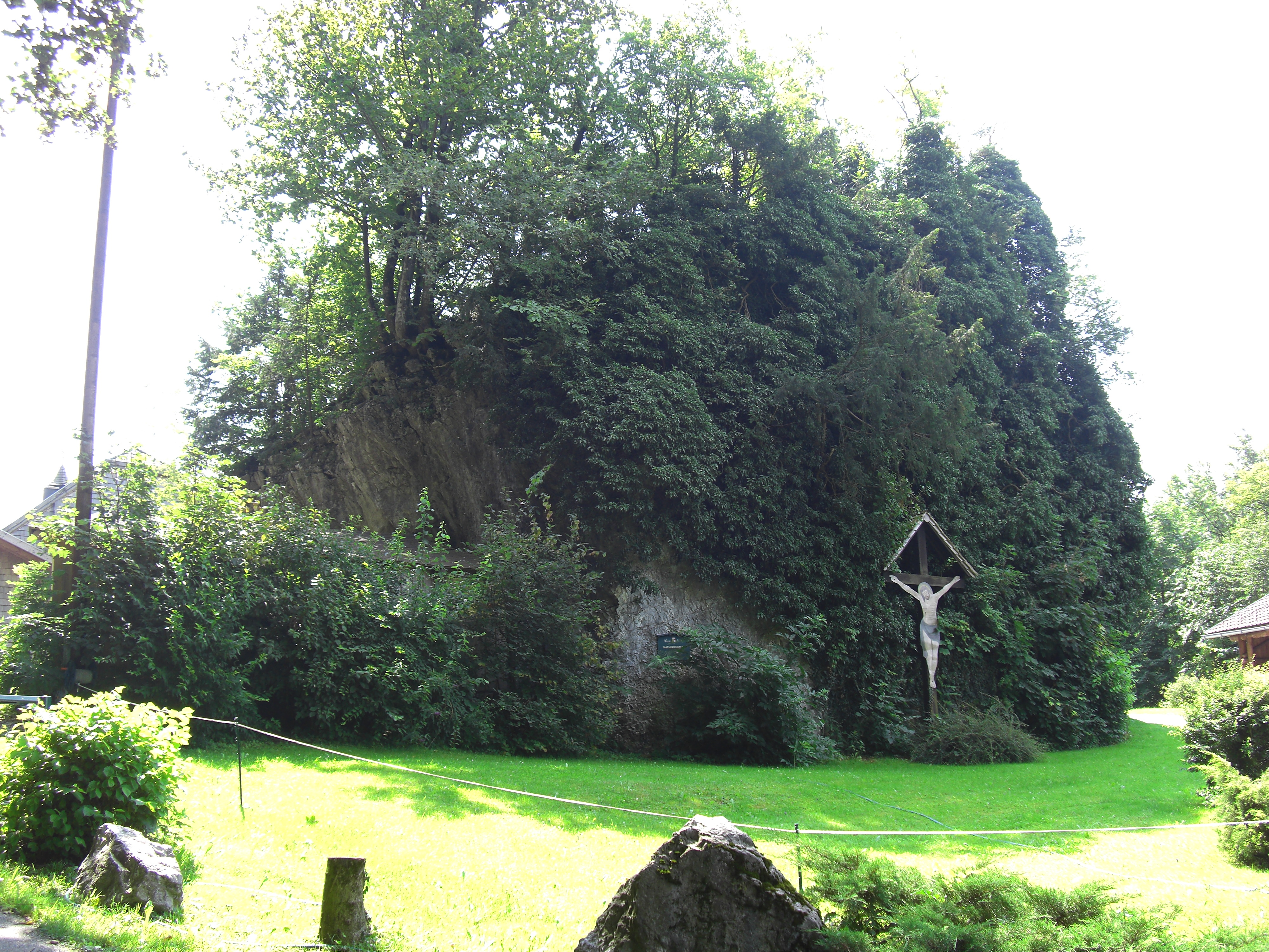 Archstein in Elsbethen